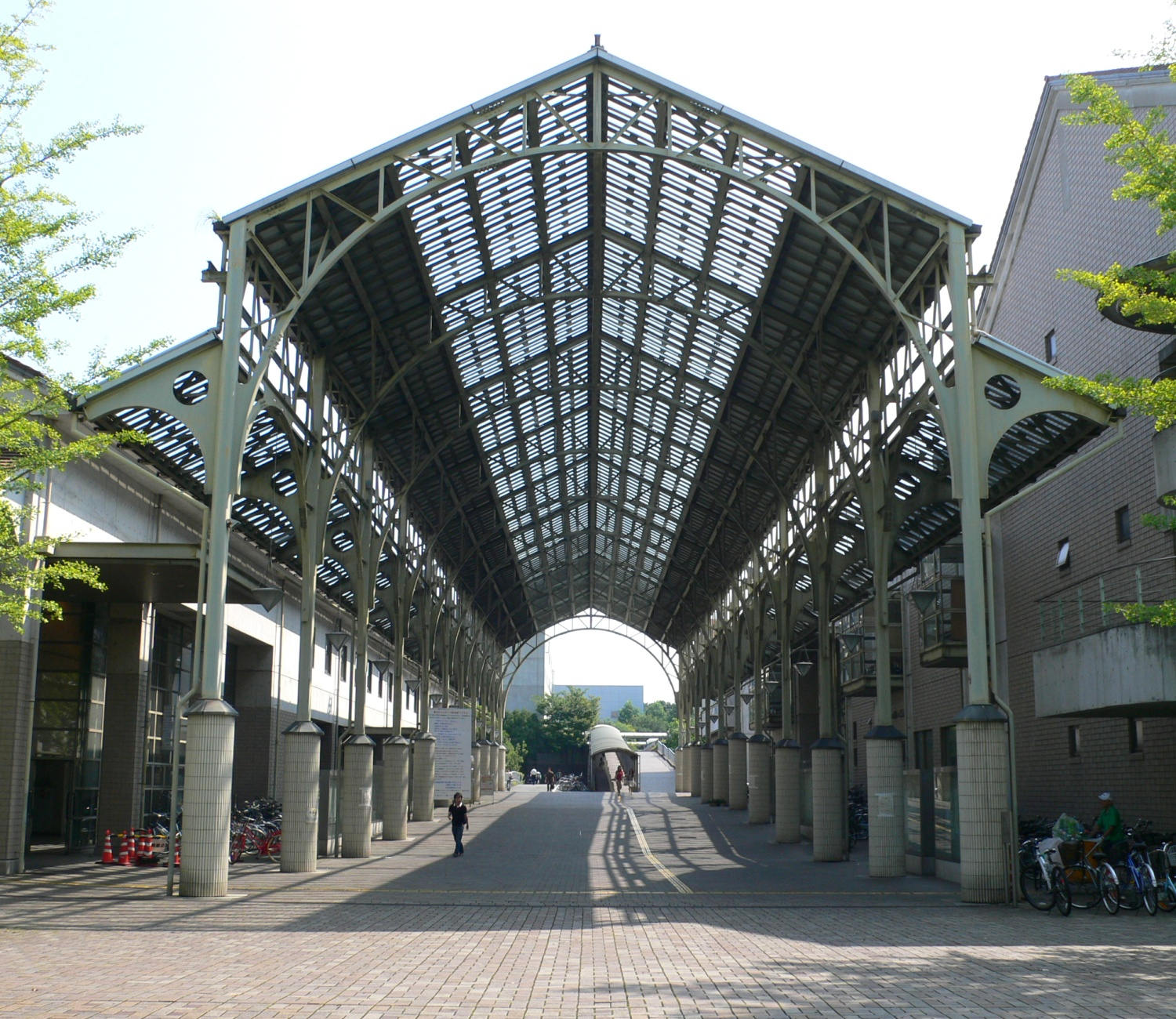 Tokyo_Metropolitan_University (Information gallery)